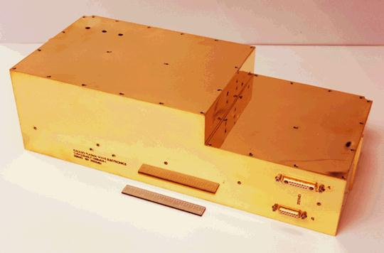 Photo of the Plasma Wave Subsystem (PWS) instrument that was incorporated into the Galileo spacecraft.